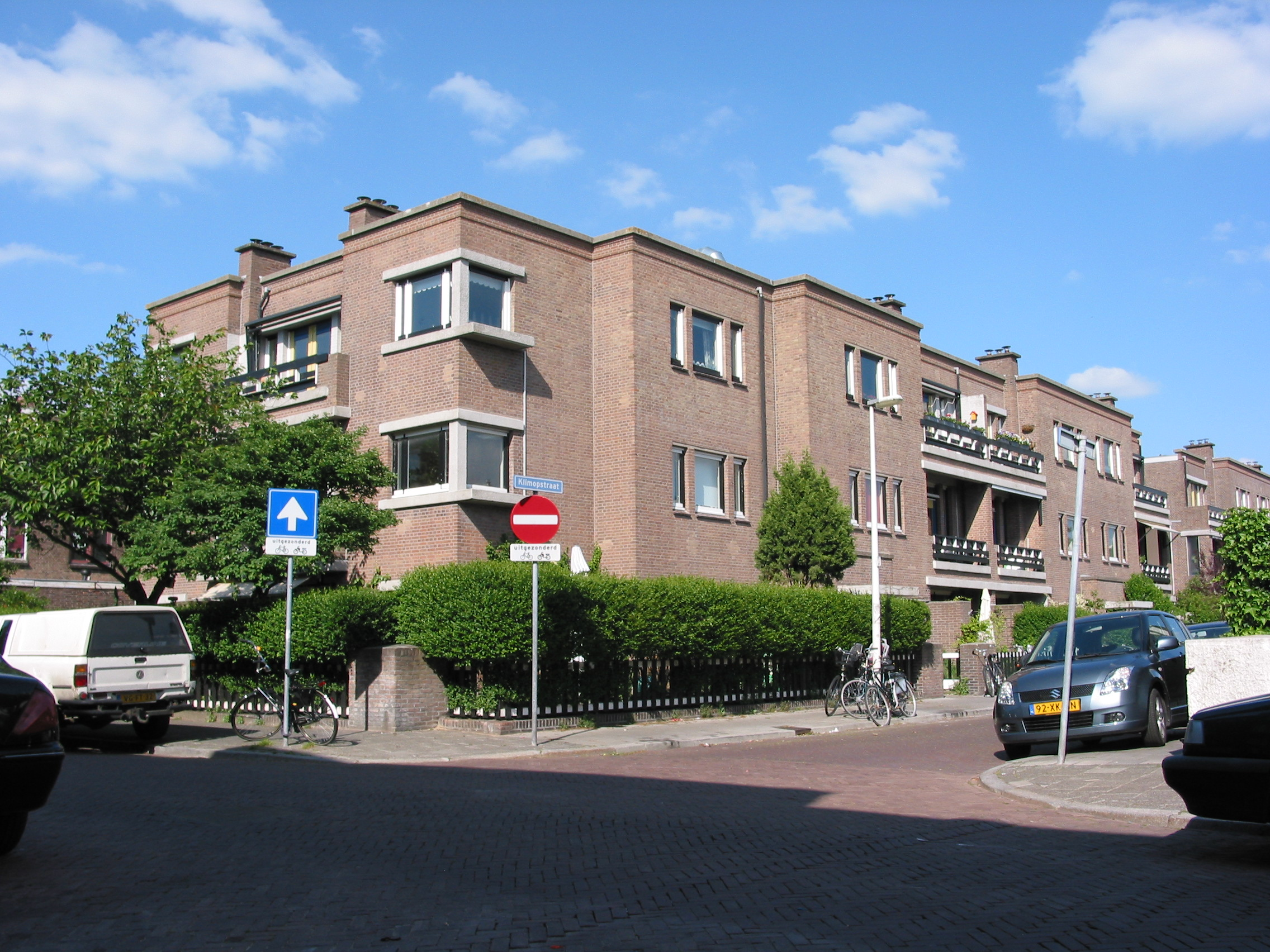 Jan Wils (architect). Block of flats, Klimopstraat 2-24, The Hague. 1921.